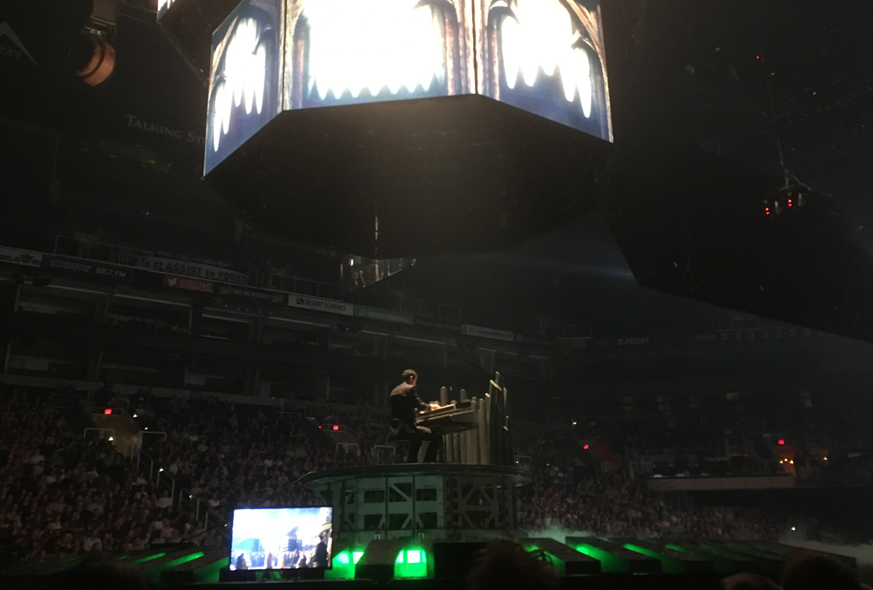 Ramin Djawadi performing "Light of the Seven" at the Game of Thrones Live Concert Experience at Talking Stick Resort Arena in Phoenix, Arizona.